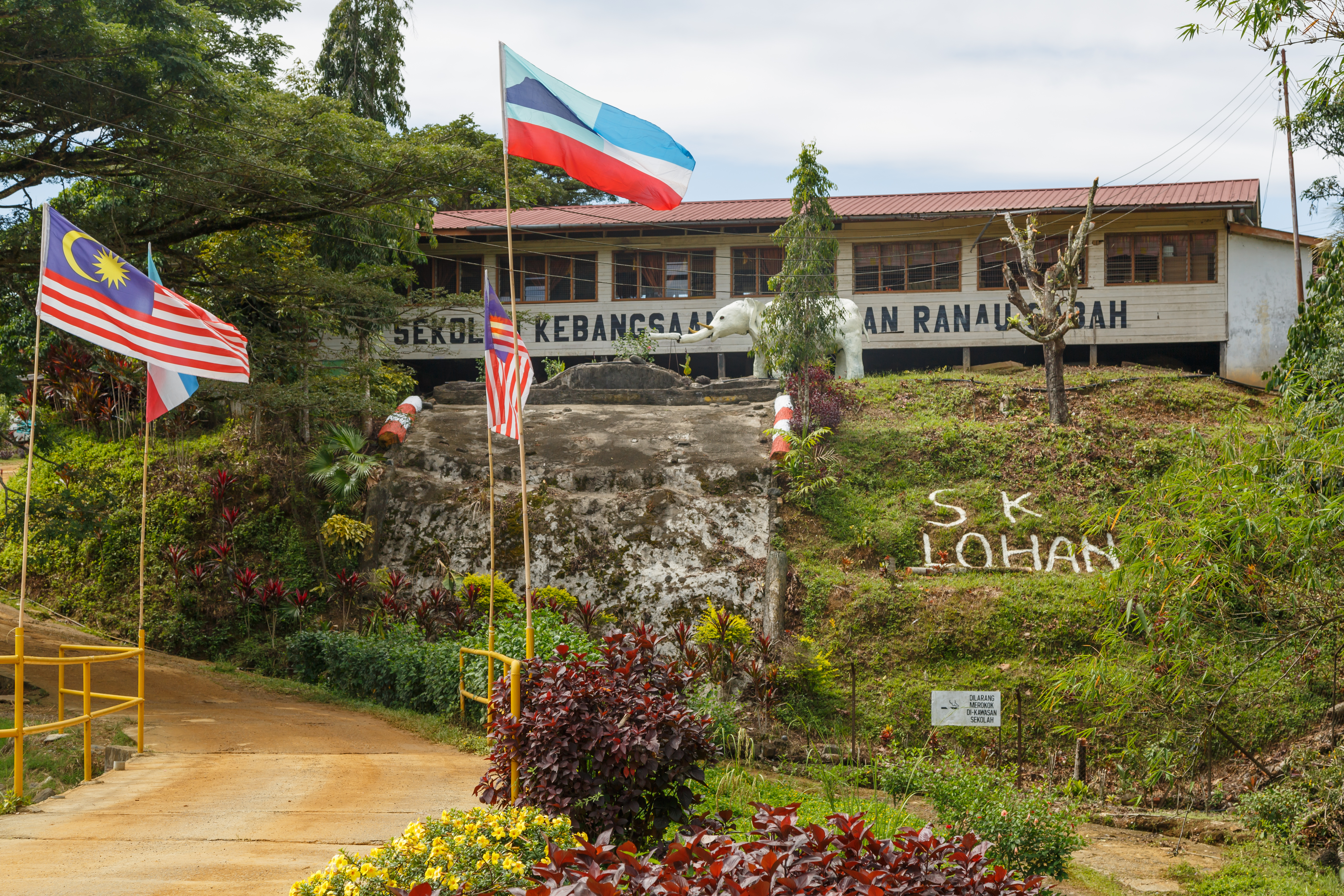 Lohan, Ranau, Sabah: SK Lohan (Sekolah Kebangsaan Lohan), a primary school in Sabah